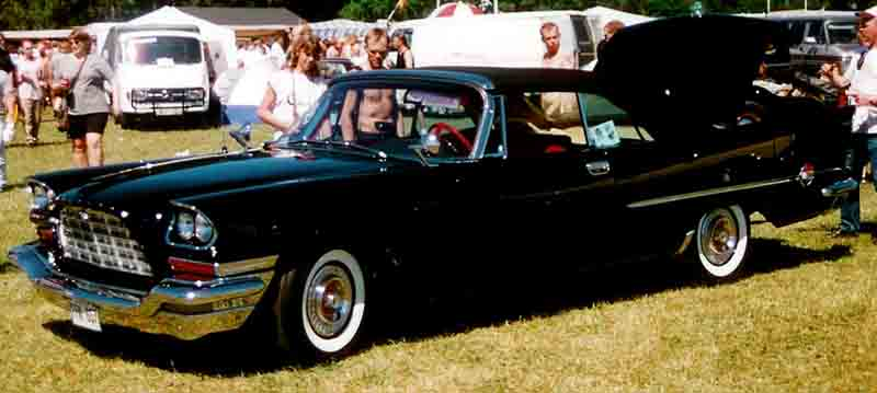 Chrysler 300 C Convertible 1957